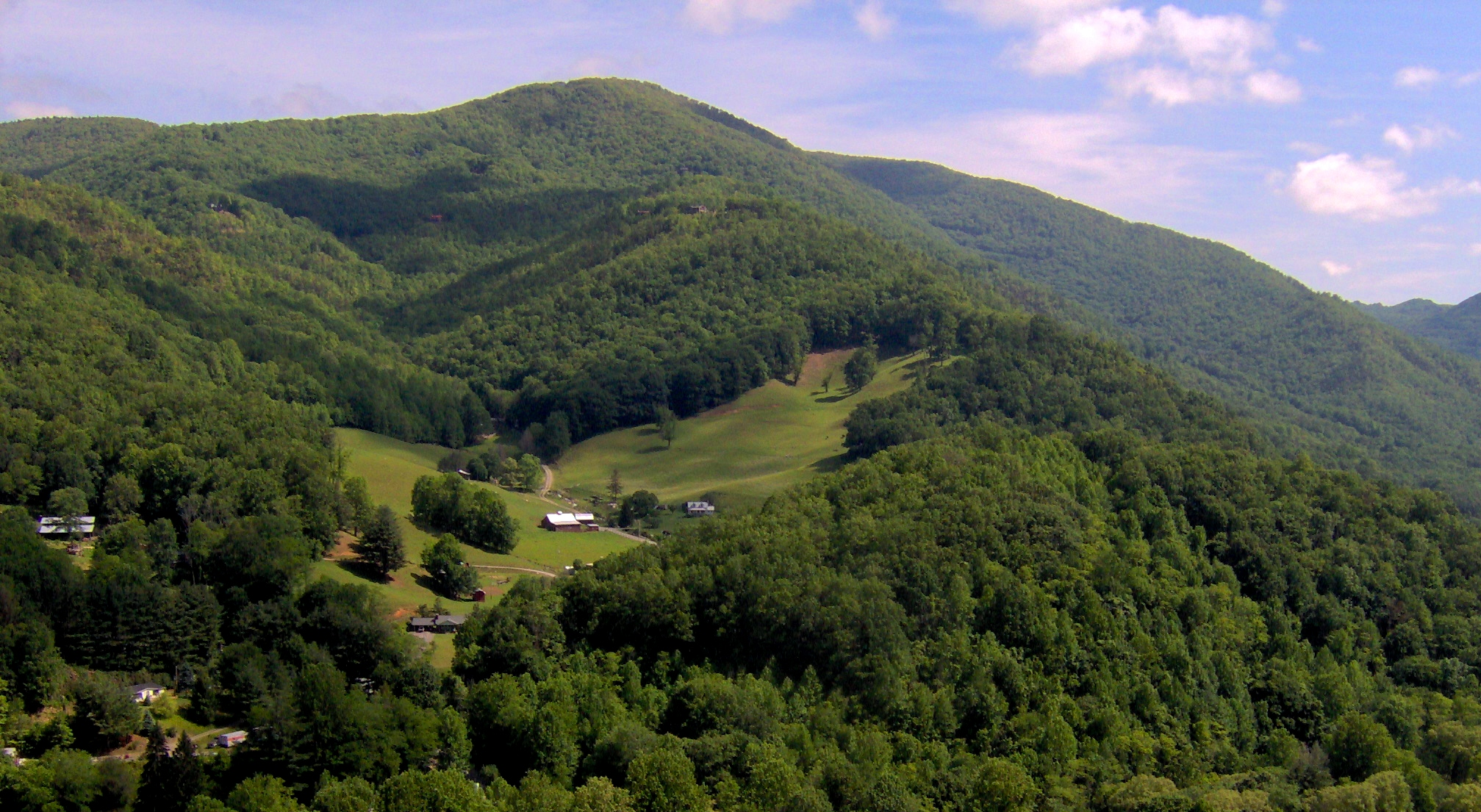 A highland pasture 3500 ft (1000m) up the south slope of the Cataloochee Divide (Great Smoky Mountains) near Maggie Valley, North Carolina, USA. This view is from a tower along Soco Road that bills itself as the most photographed view in the region. The pasture is at coordinates 35.52101 -83.13299.